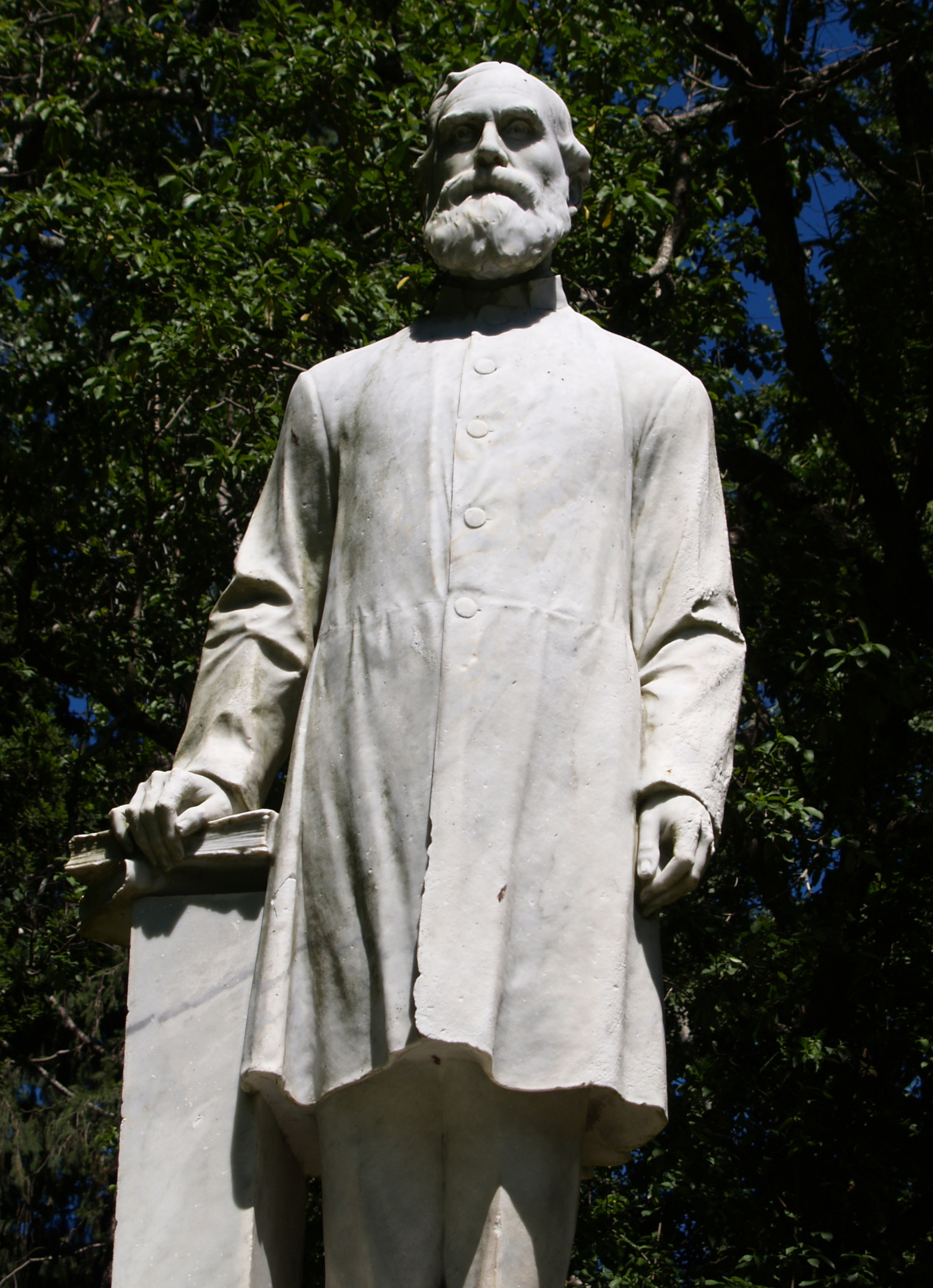 Canon Charles Jordan, Vicar of Holy Trinity for 39 years, who also served as Mayor of Tauranga for nine years. This, Tauranga’s only commemorative statue, was unveiled in 1916, four years after Jordan’s death.